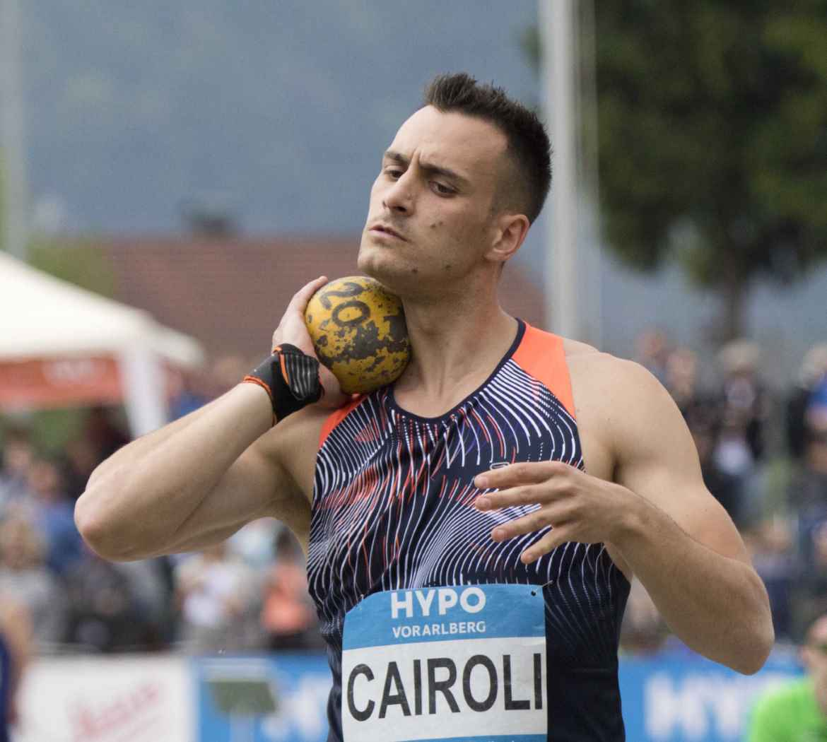 2019 Hypo-Meeting Götzis